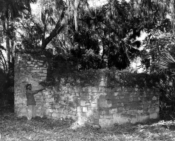 Elderly man at Addison Blockhouse Historic State Park - Ormond Beach, Florida Addison Block House was acquired by the state as a historic park in 1945 from the Volusia Hammock State Park Association. The blockhouse was part of John Addison's plantation, Carrickfergus. He acquired the propetry through a 1400-acres Spanish land grant in 1816. He died in 1825. The plantation, including the coquina stone blockhouse, was burned during the Second Seminole War in 1836.